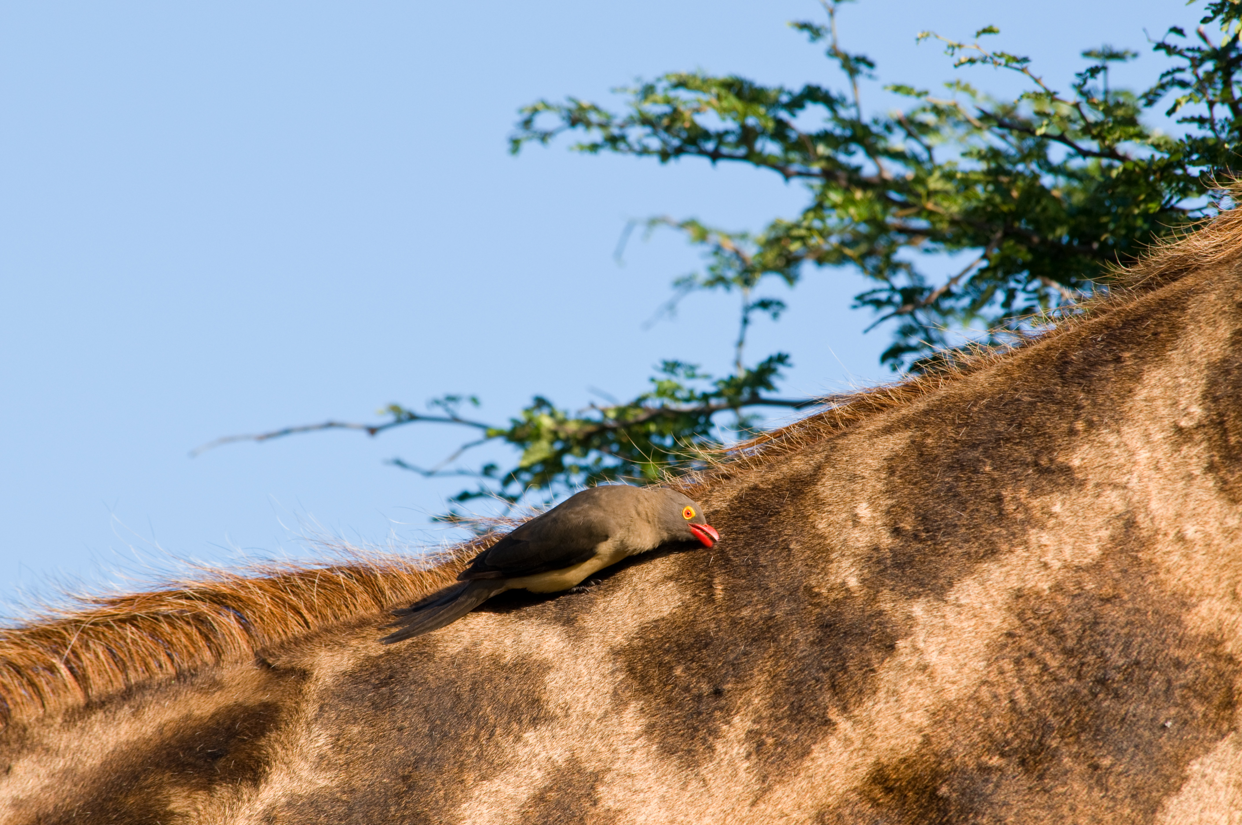 Red-billed Oxpecker (Buphagus erythrorhynchus) at work on a giraffe. Dysmorodrepanis 01:32, 29 May 2008 (UTC)